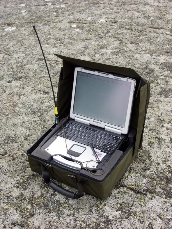 By Jerker Johansson, Sandbacken AB.